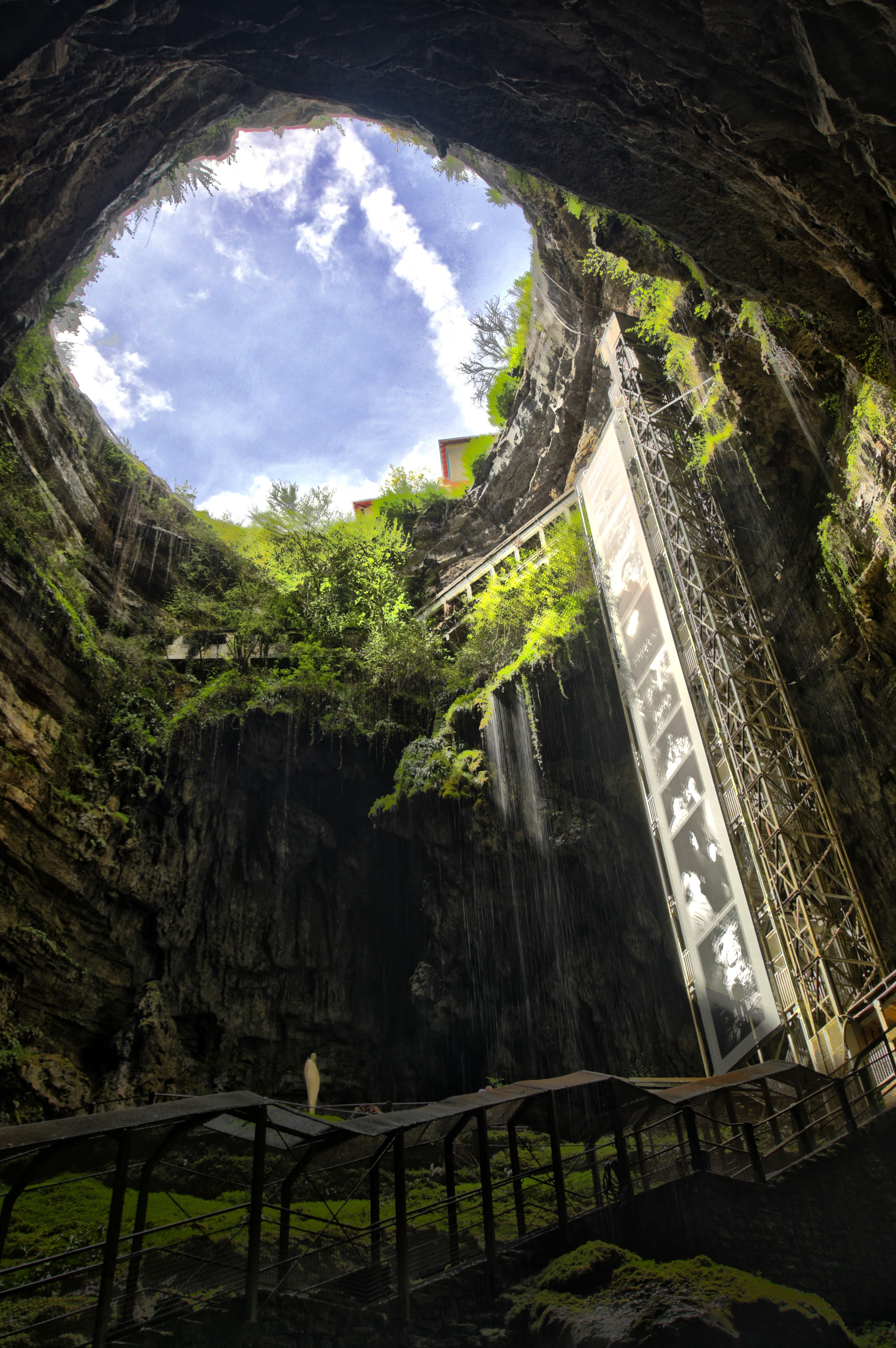 Padirac cave, from the bottom.